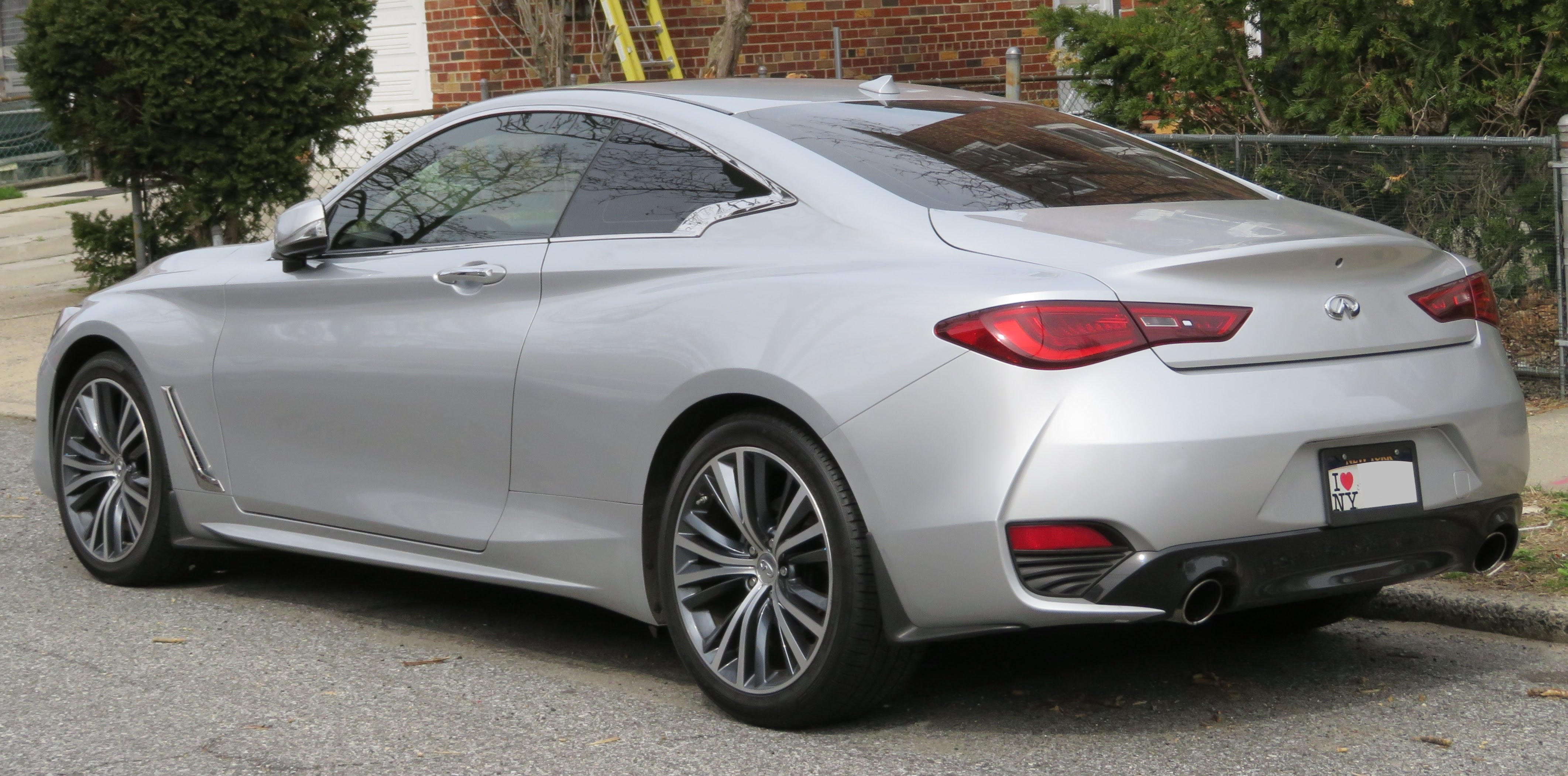 In Queens, New York